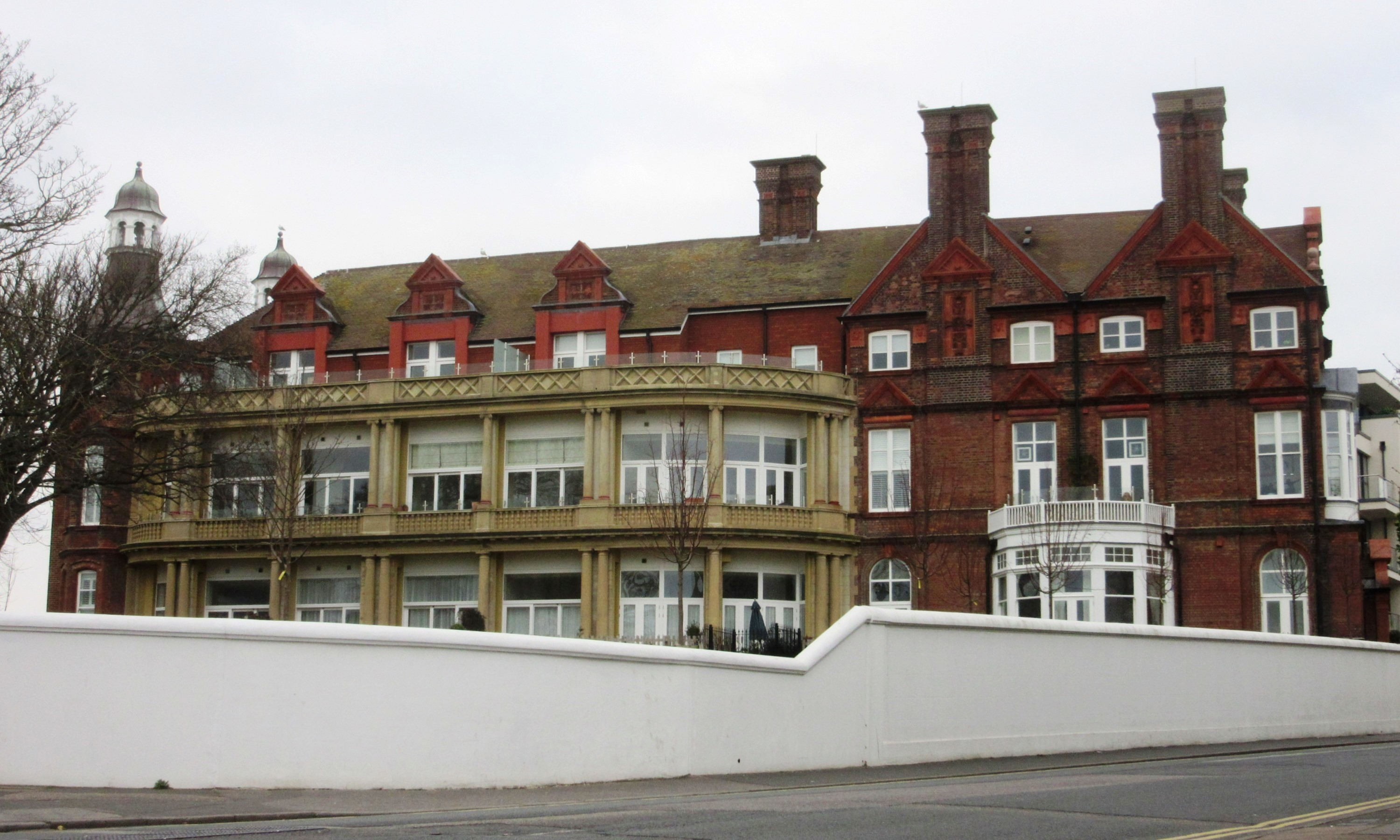 The former Royal Alexandra Children's Hospital, Dyke Road, West Hill, City of Brighton and Hove, England. On Brighton & Hove City Council's Local List of Heritage Assets. The building has been converted into flats (the Royal Alexandra Quarter); the hospital itself has moved elsewhere in the city.